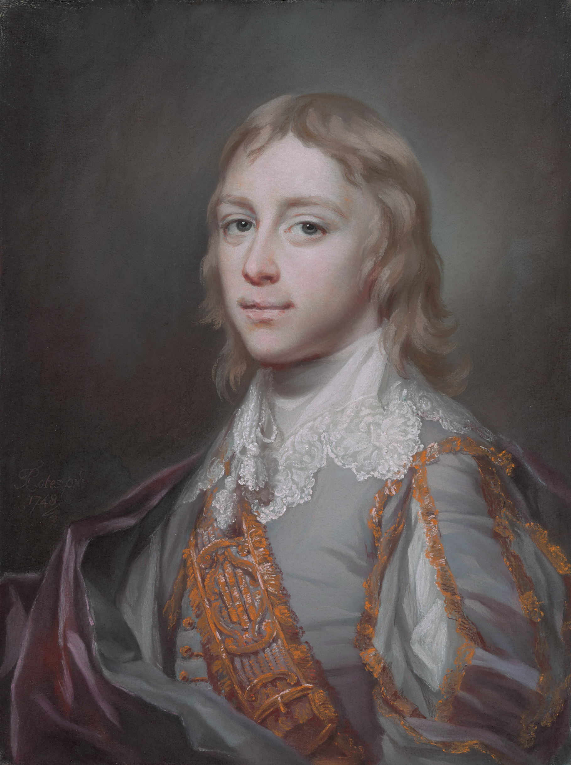 Lieutenant-Colonel the Hon. Edmund Craggs Nugent, wearing Van Dyck costume pastel on paper 59 x 43.7 cm signed b.l.: FCotes pxt / 1748